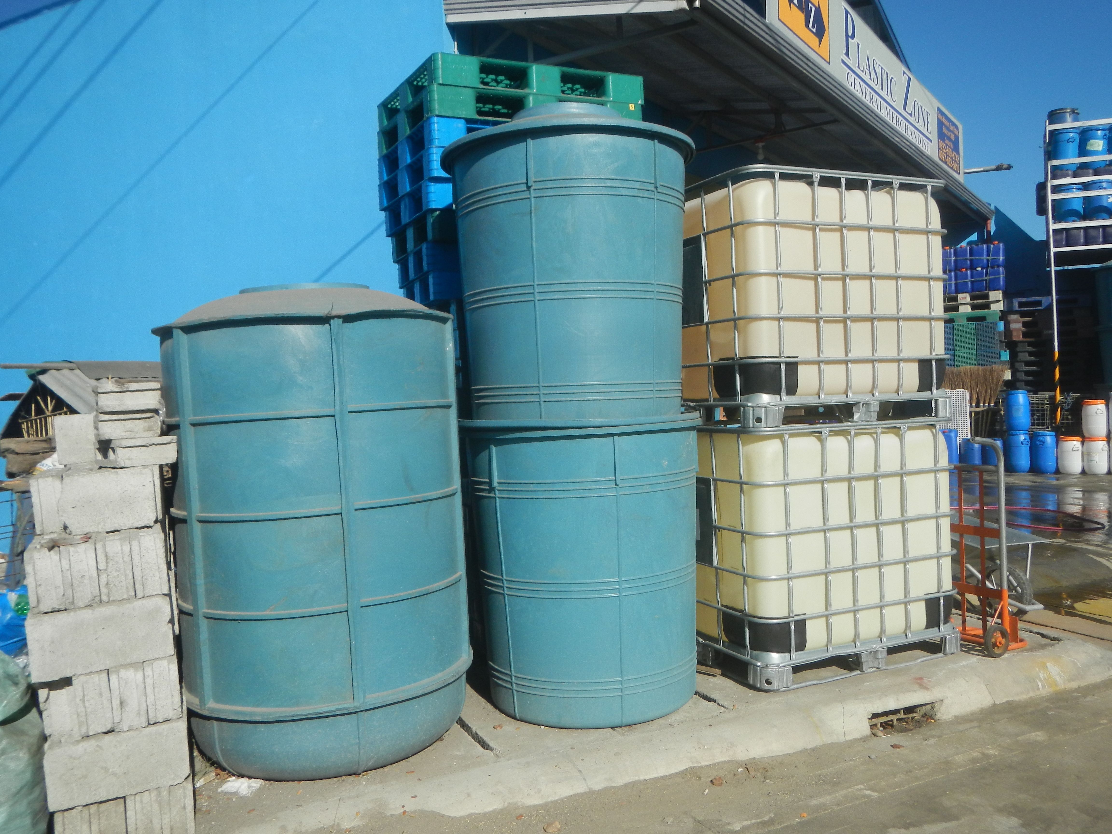 Plastic containers Plastic Zone General Merchandize Galas-Maasim, San Rafael, Bulacan in Barangays Galas-Maasim, San Rafael, Bulacan (Note: Judge Florentino Floro, the owner, to repeat, Donor Florentino Floro of all these photos hereby donate gratuitously, freely and unconditionally all these photos to and for Wikimedia Commons, exclusively, for public use of the public domain, and again without any condition whatsoever).